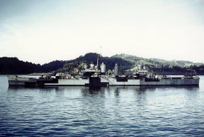 The U.S. Navy light cruiser USS Honolulu (CL-48) in a south Pacific port, probably during the spring of 1944. Her camouflage is Measure 32, Design 2c.